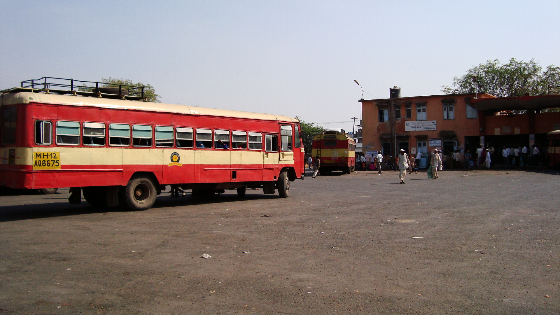 MSRTDC Bus Depot in Sangola